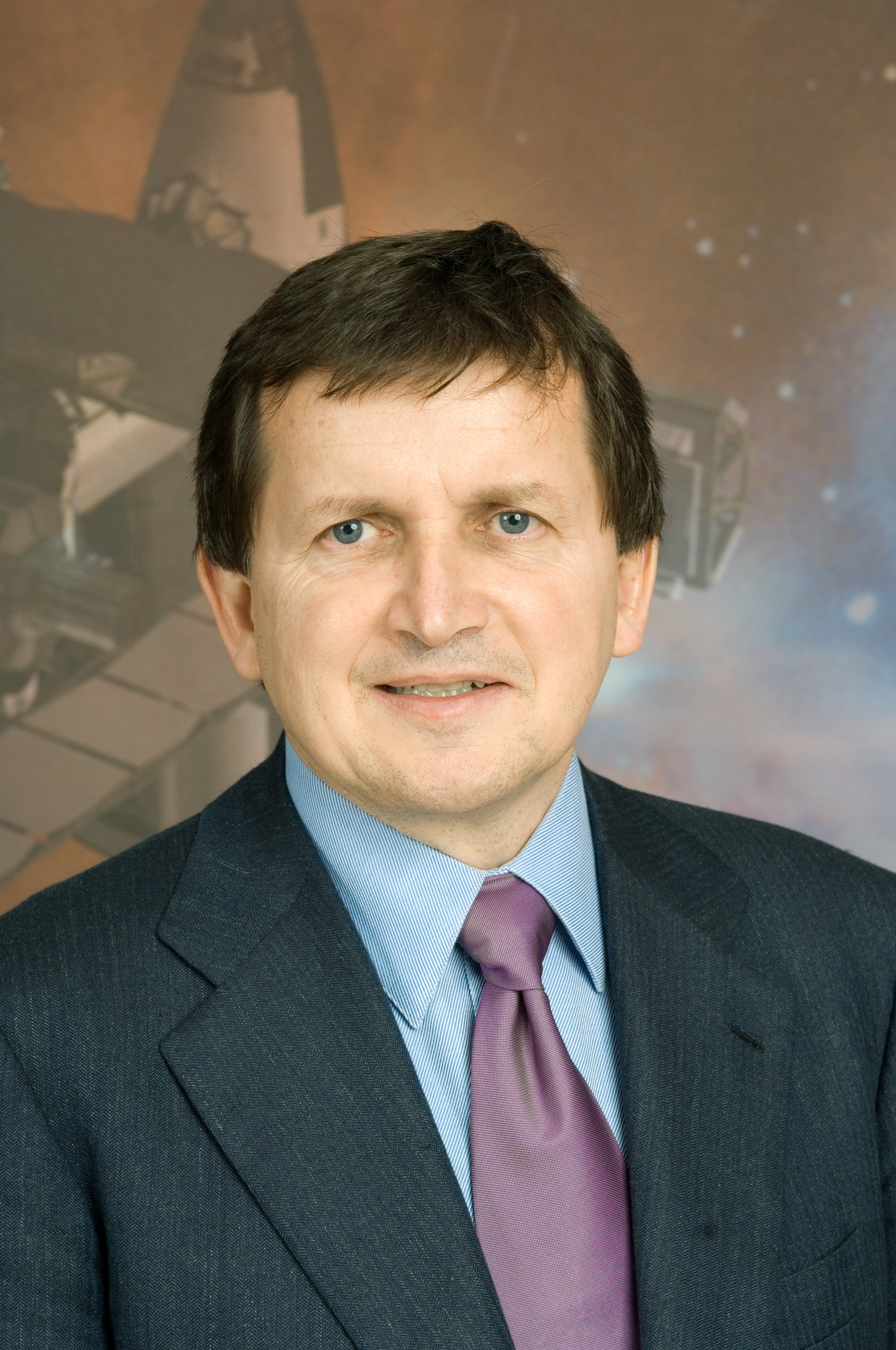 Charles Simonyi will fly as space flight participant on the Expedition 15 mission next year. He posed for photos, along with his crewmates, during a press briefing at the Johnson Space Center on Dec. 13, 2006.